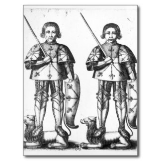 Fulk III and Geoffrey II Martel